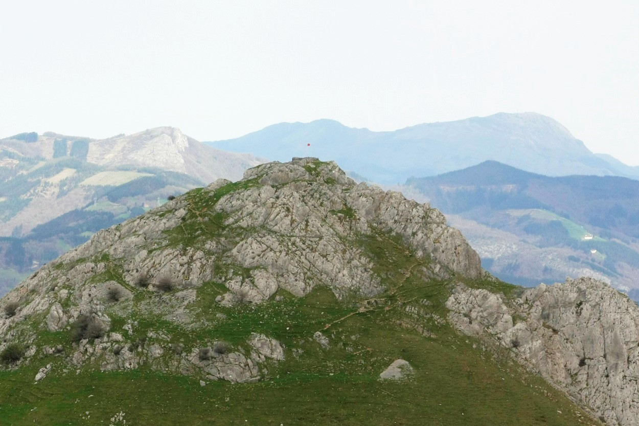 Autza Gaztelu castle ruins